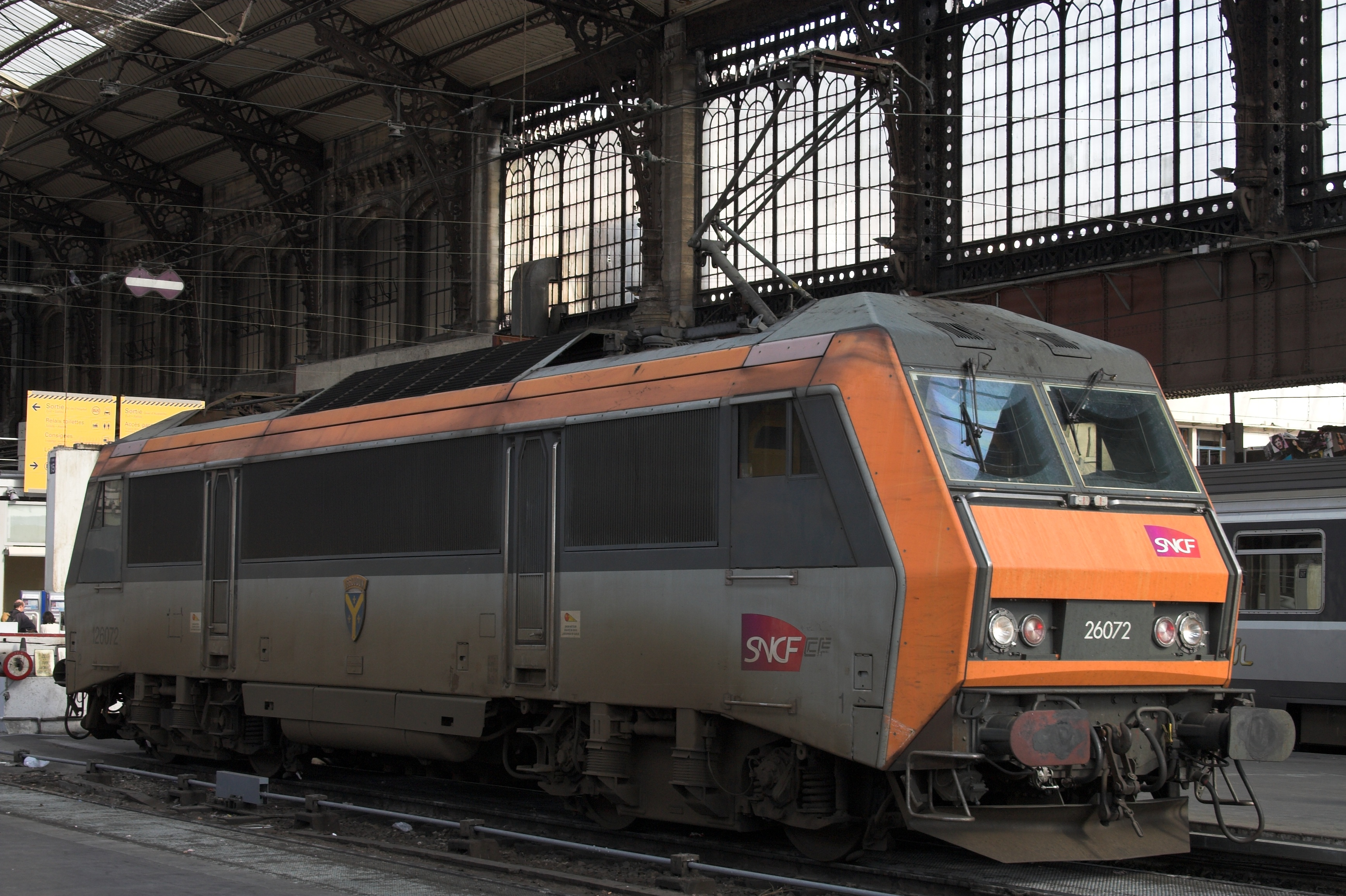 BB26000 of SNCF(gare d'Austerlitz, France)